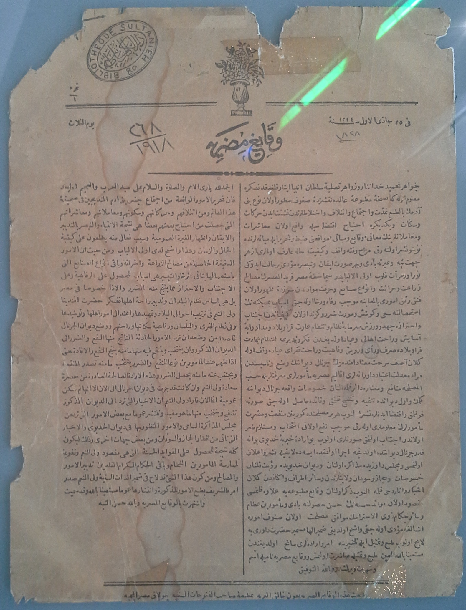 The first issue of Al-Waqa'i' al-Misriyya, the official gazette of Muhammad Ali's Egypt, published in 1828.